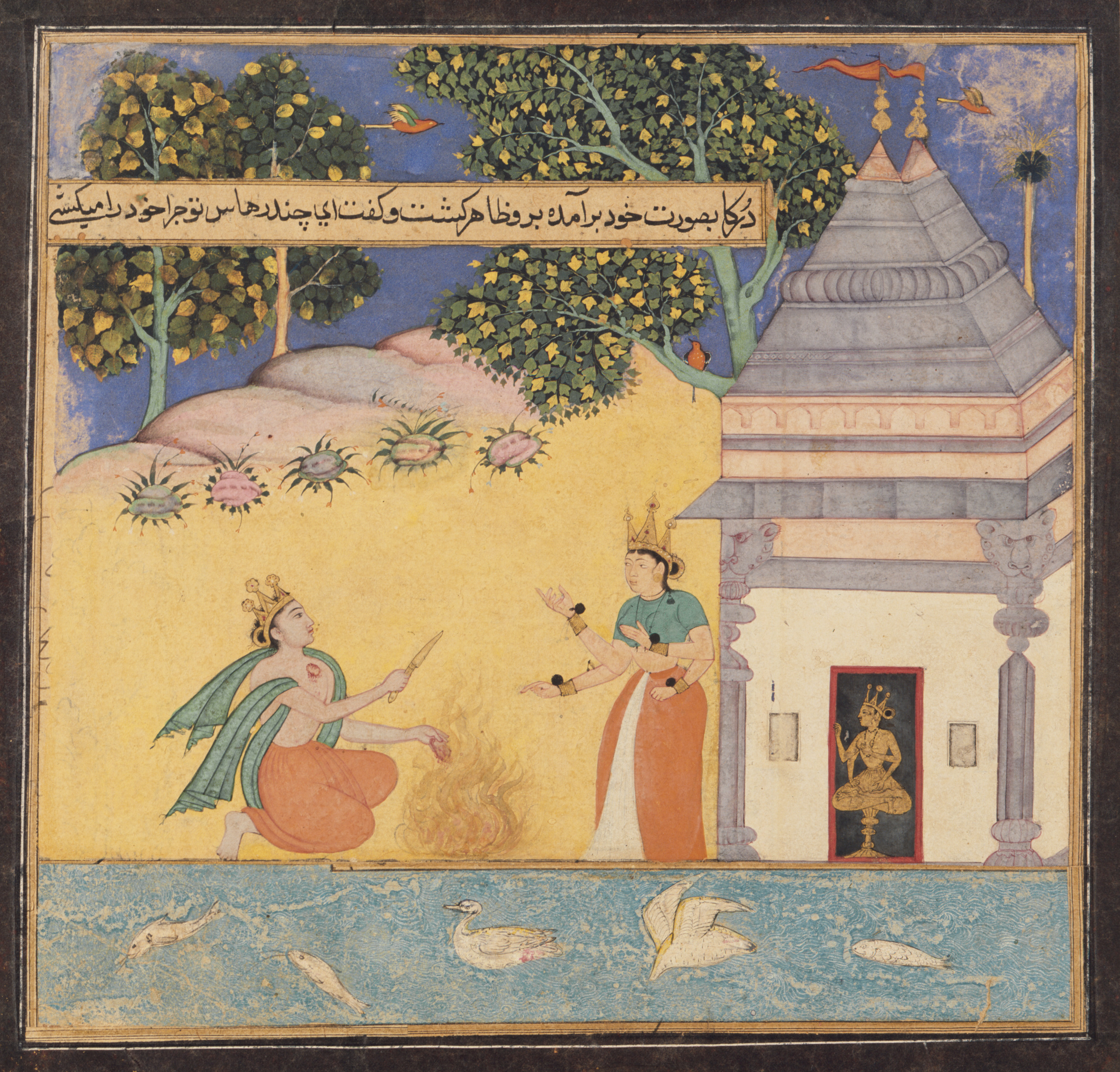 India, Sub-Imperial Mughal, South Asia Prince Chandrahasa and a Goddess, Folio from a Razmnama From the Nalsi and Alice Heeramaneck Collection, Museum Associates Purchase South and Southeast Asian Art Department.